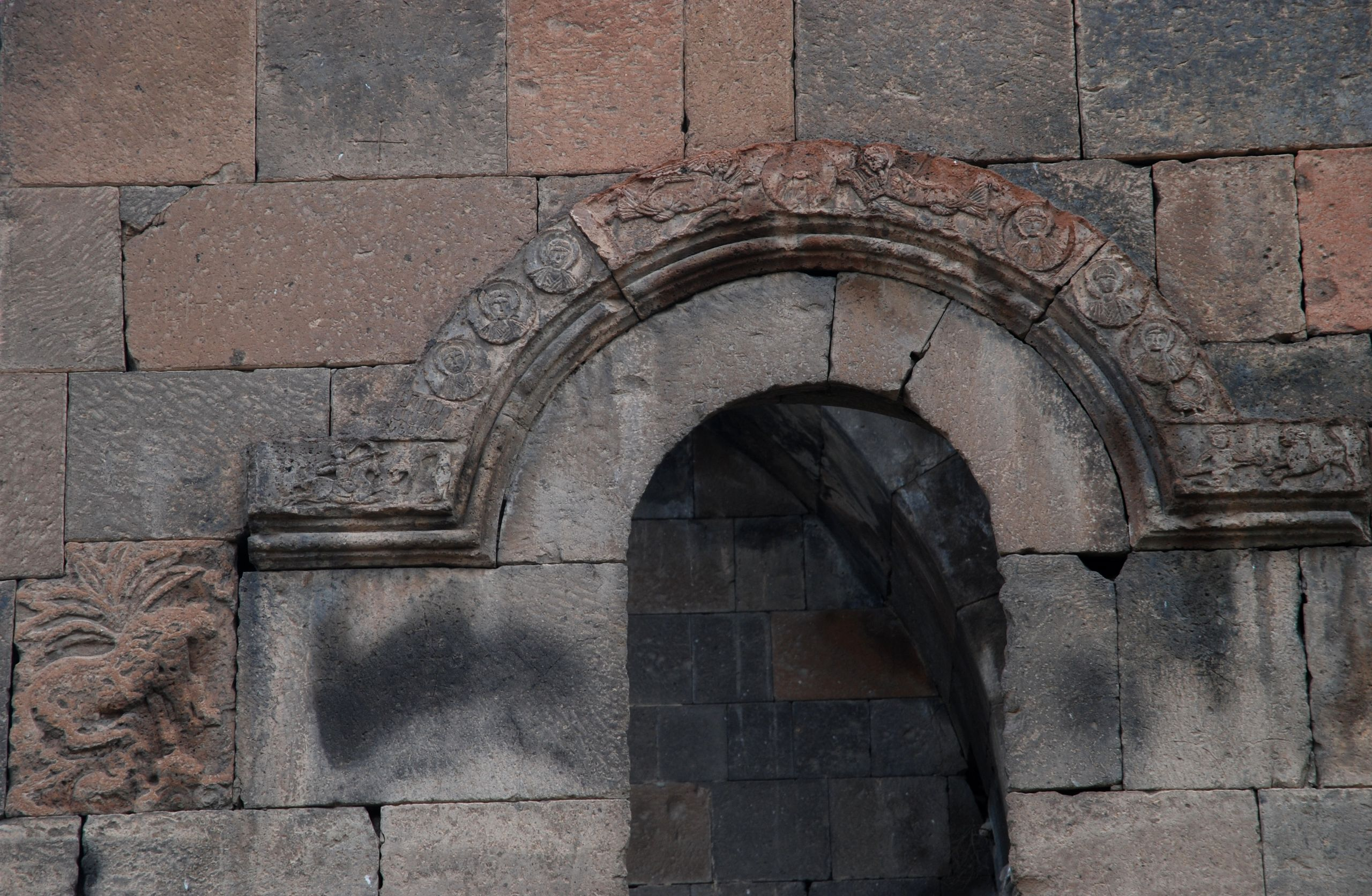 Ptghni, window south wall